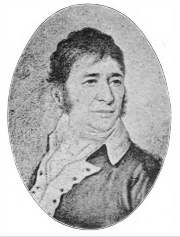 Davis, Charles L. (1896) A Brief History of the North Carolina Troops on the Continental Establishment in the War of the Revolution with a Register of Officers of the Same Retrieved on January 30, 2019.